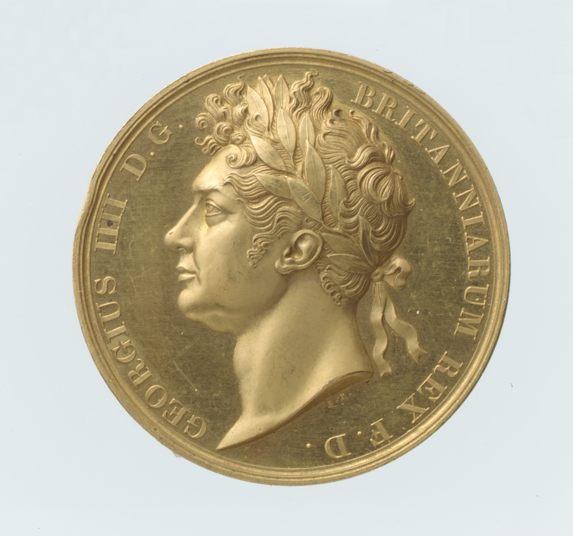 British, London; Medal; Medals and Plaquettes